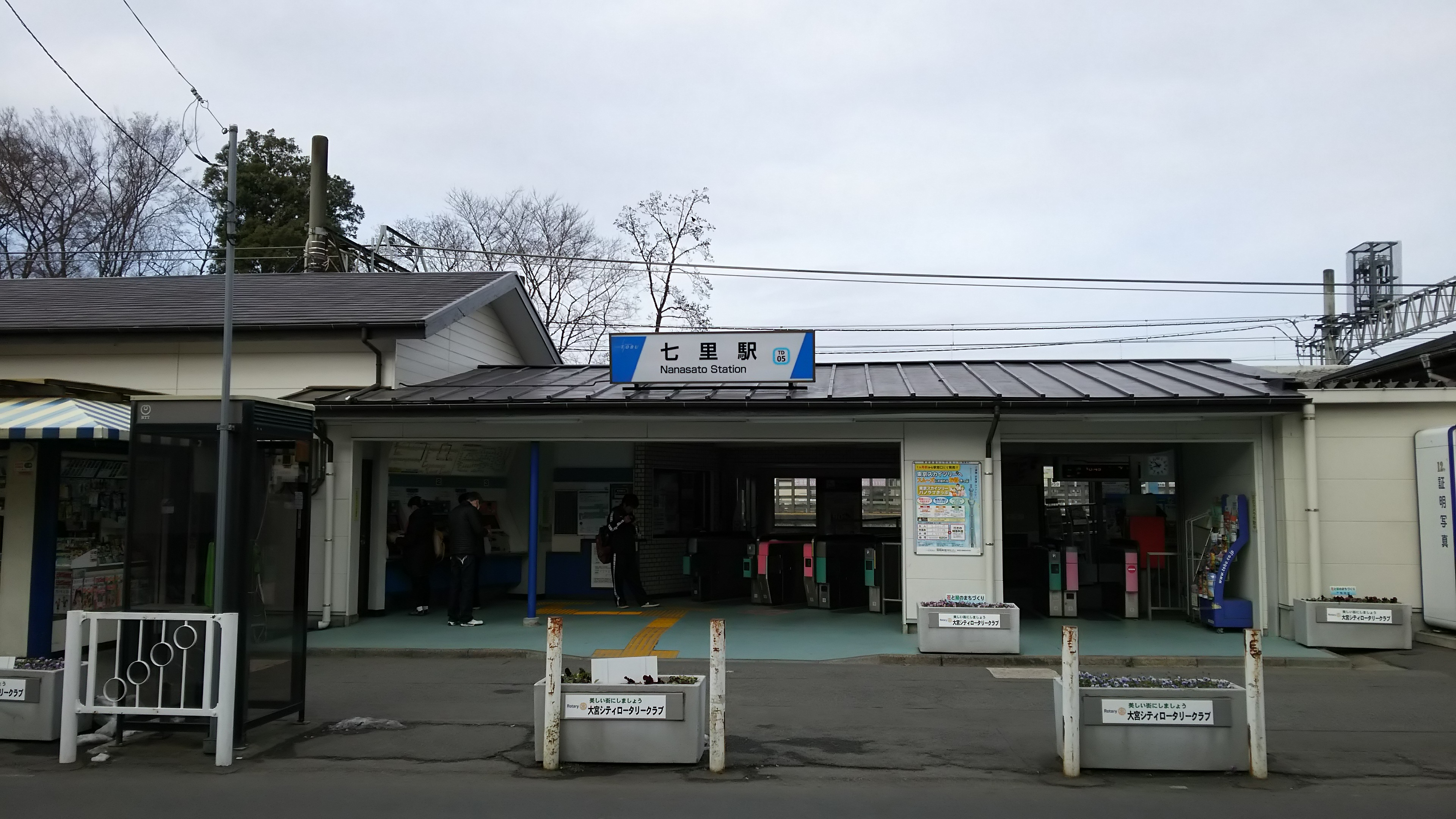 Nanasato Station on the Tobu Urban Park Line